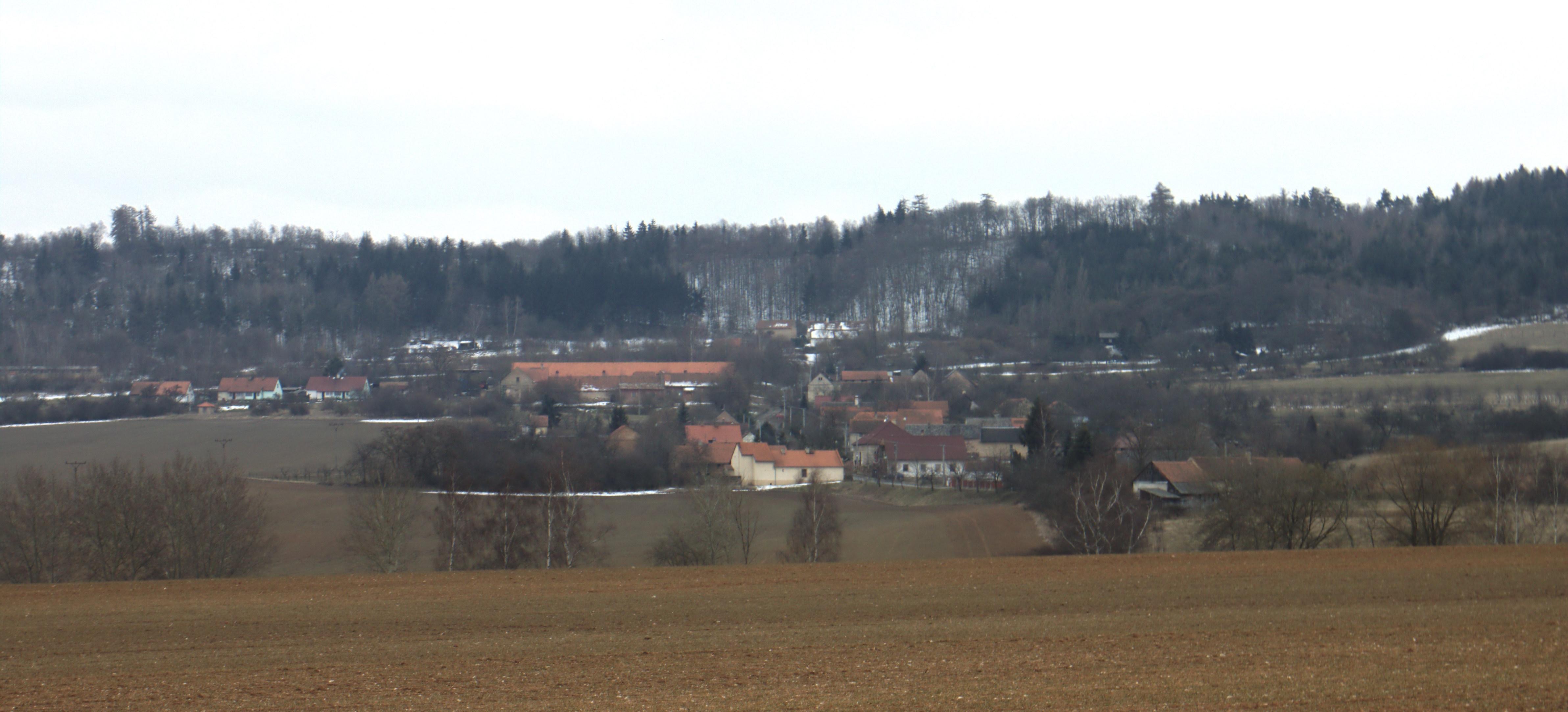 View of the town of Václavy in Rakovník District, Central Bohemian Region, CZ